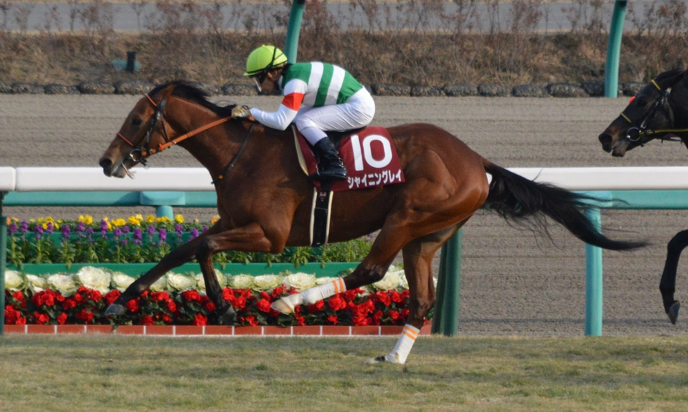 Japanese race horse Shining Lei at Nakayama racecourse. Nakayama (JPN) 28 Dec 2014 Hopeful Stakes (Grade 2) (Turf) (2yo) 1m2f Firm RankHorse NameOddsAgeWgtTrainerJockey1stShining Lei (JPN)7/2C28-9Tomokazu TakanoYuga Kawada2ndKomet (JPN)30/1C28-9Minoru TsuchidaTakayuki Kato3rdBlack Bago (JPN)30/1C28-9Makoto SaitoKeita Tosaki4th - 17th/omission